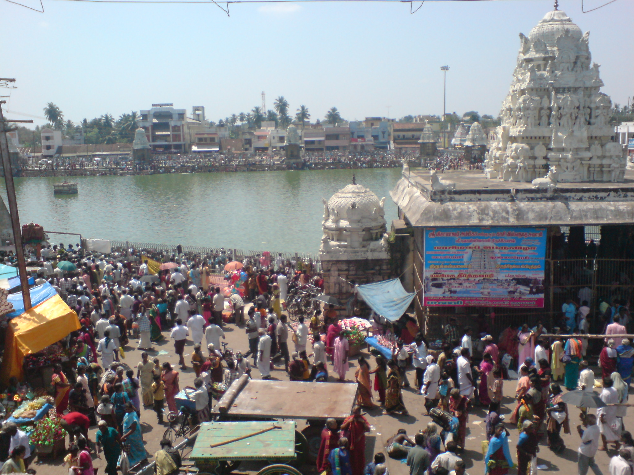 Hindu temple, kumbakonam, masimagam